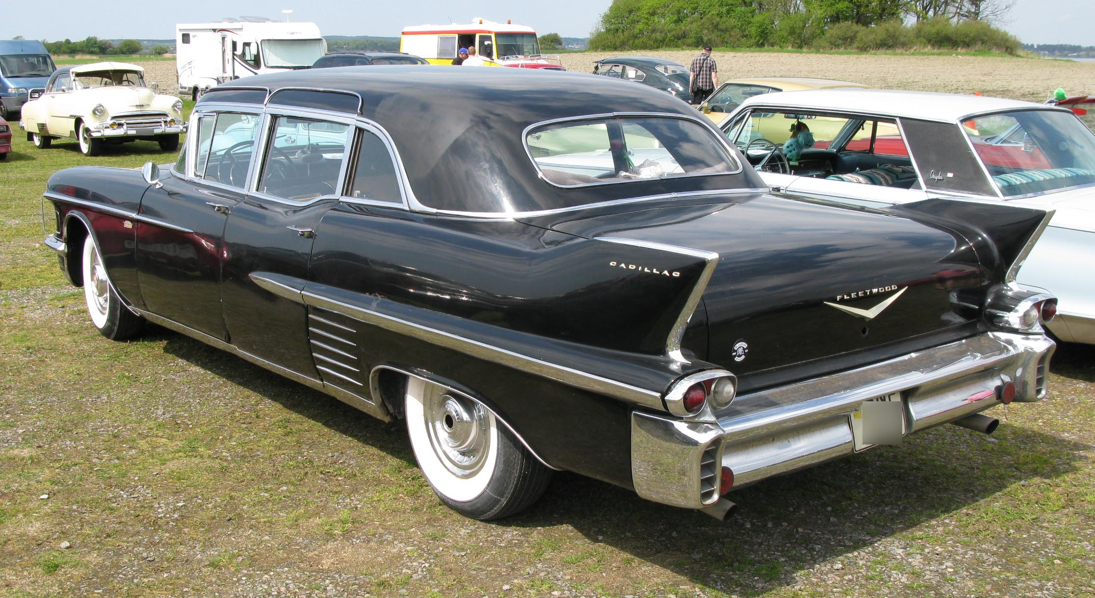 1958 Cadillac Series 75.Event: Tjolöholm Classic Motor 2012.